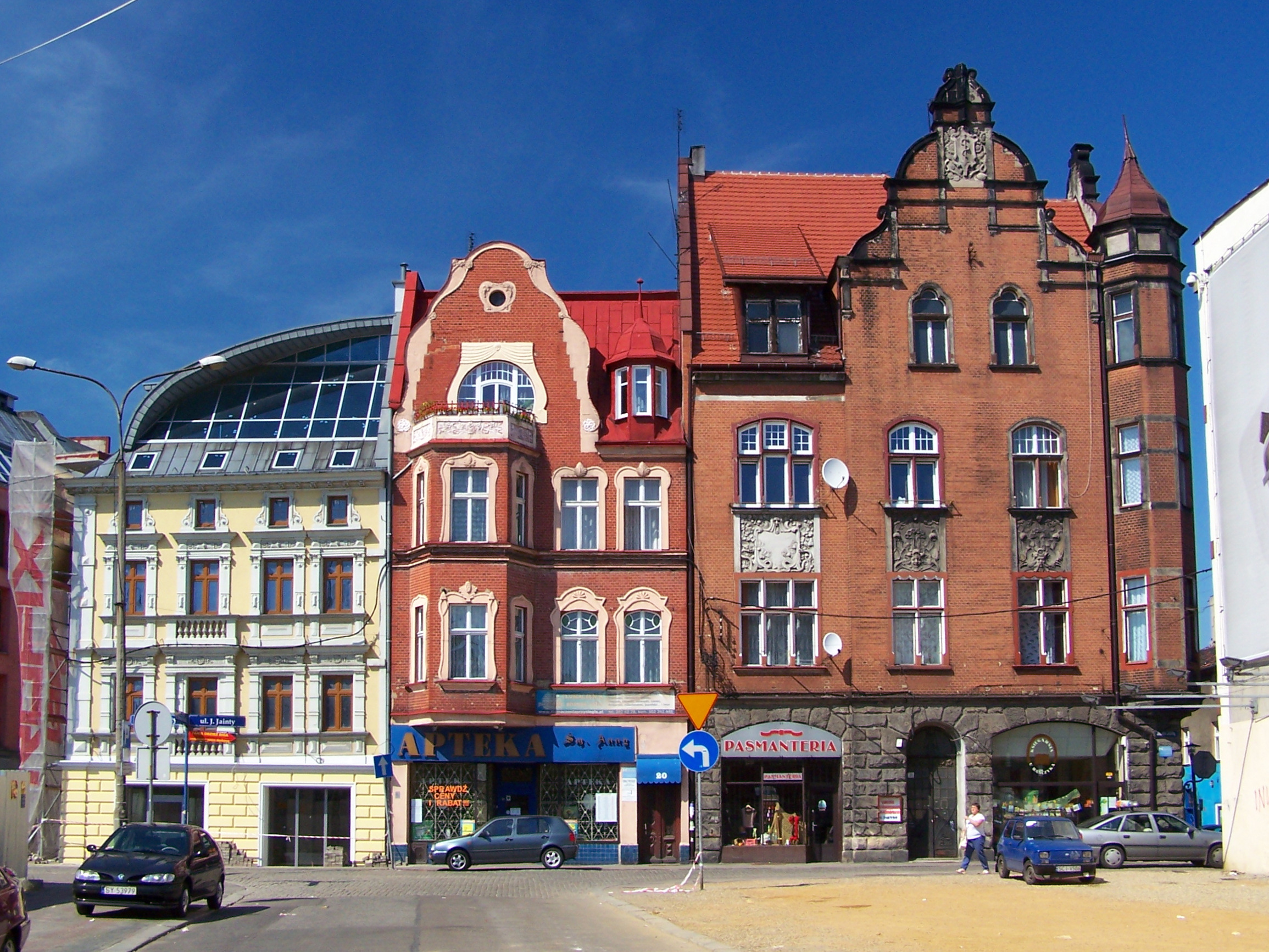 Tenement houses on the Jóżefa Jainty Street in Bytom.